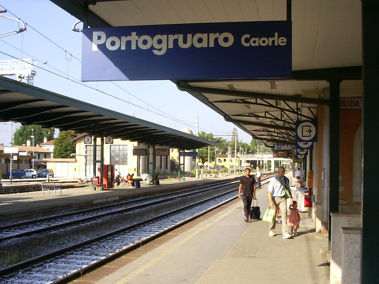 Platform of Portogruaro-Caorle train station